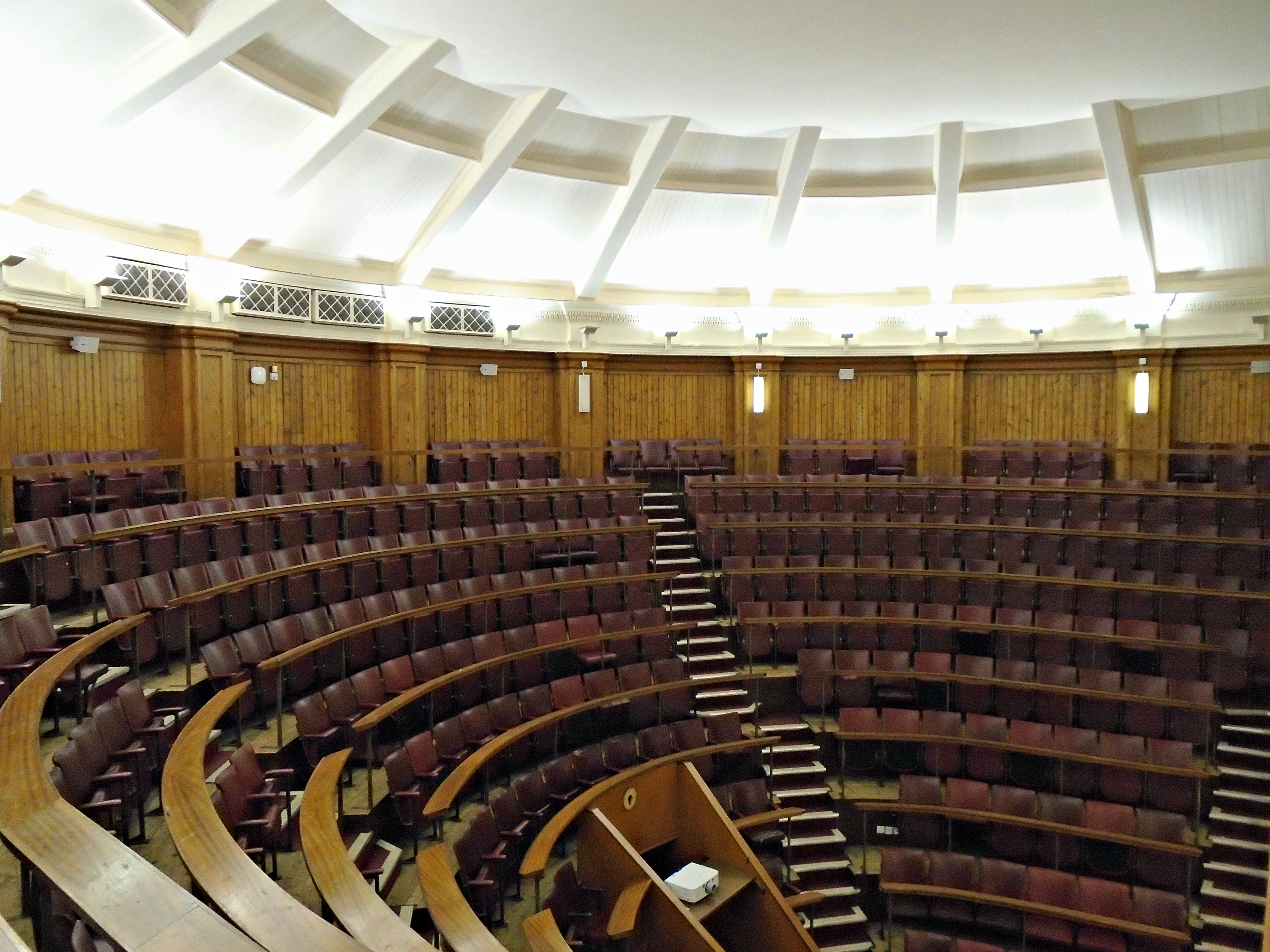 View inside room 425 - Anatomy Lecture Theatre - doorway 3 in the Medical School of the University of Edinburgh, taken as a part of a room survey.